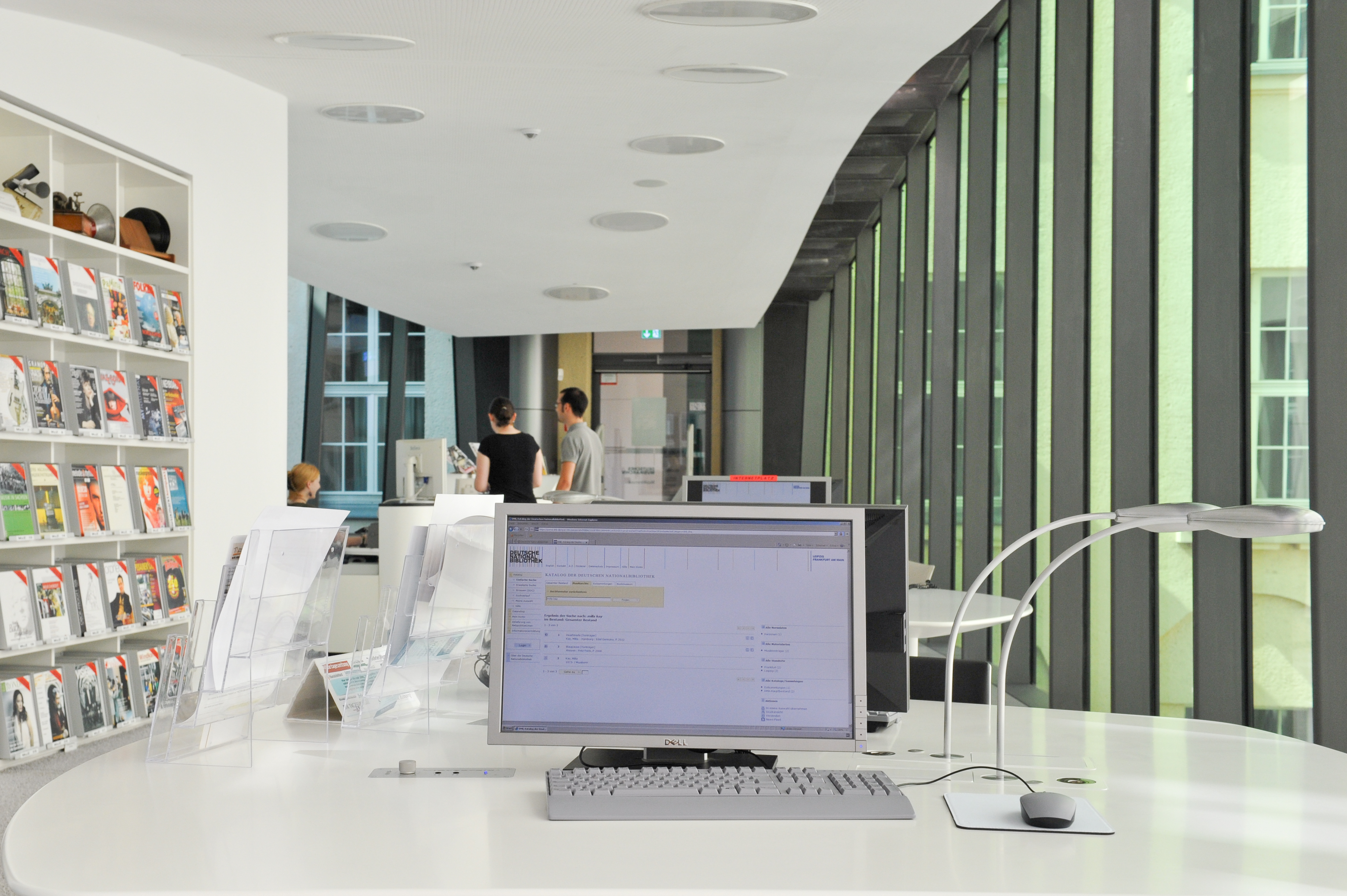 Musiklesesaal des Deutschen Musikarchivs der Deutschen Nationalbibliothek in Leipzig